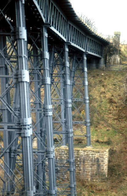 Meldon viaduct The impressive victorian steel work of Meldon viaduct (spanning 165 m), as seen from the valley below.